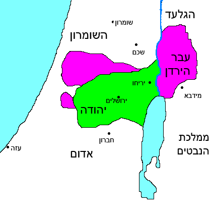 Judea onder Jonathan Maccabeüs